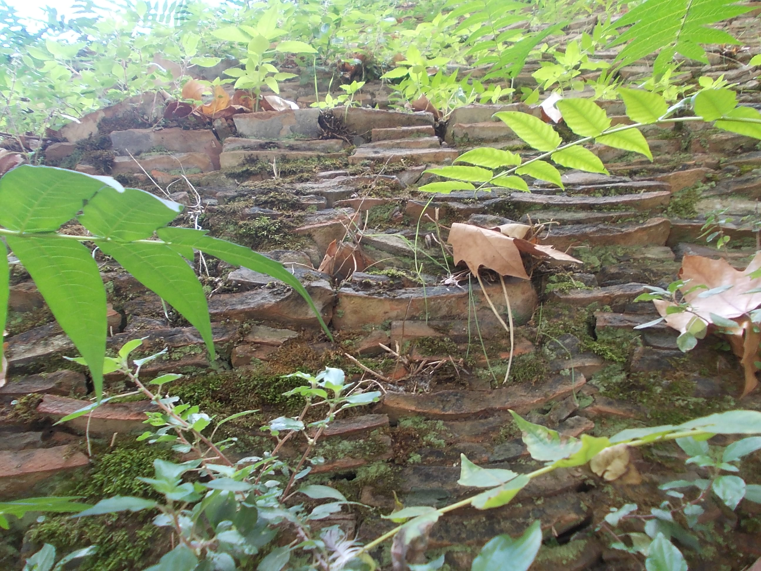 Layers of shards of amphoras settled at Testaccio hill in Rome